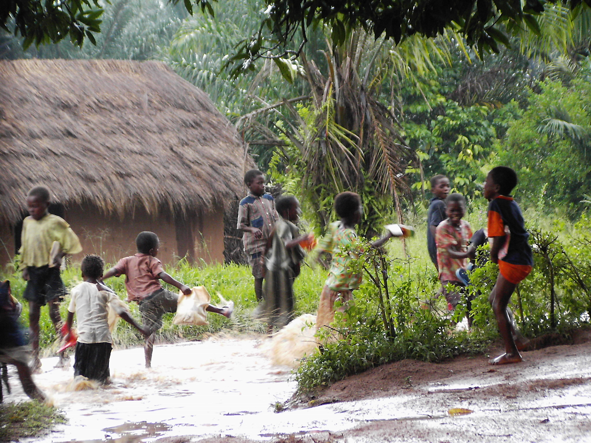 This is an image with the theme "Play" from: Democratic Republic of the Congo